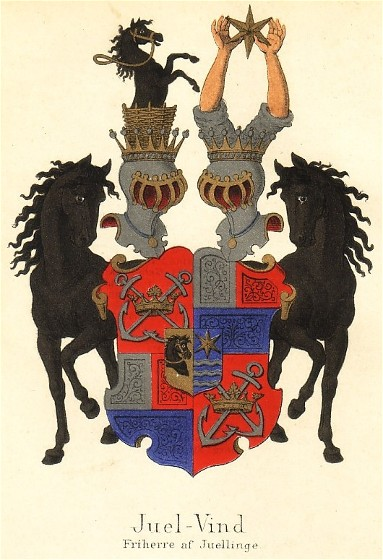 Coat of arms of the baronial Juel-Vind family